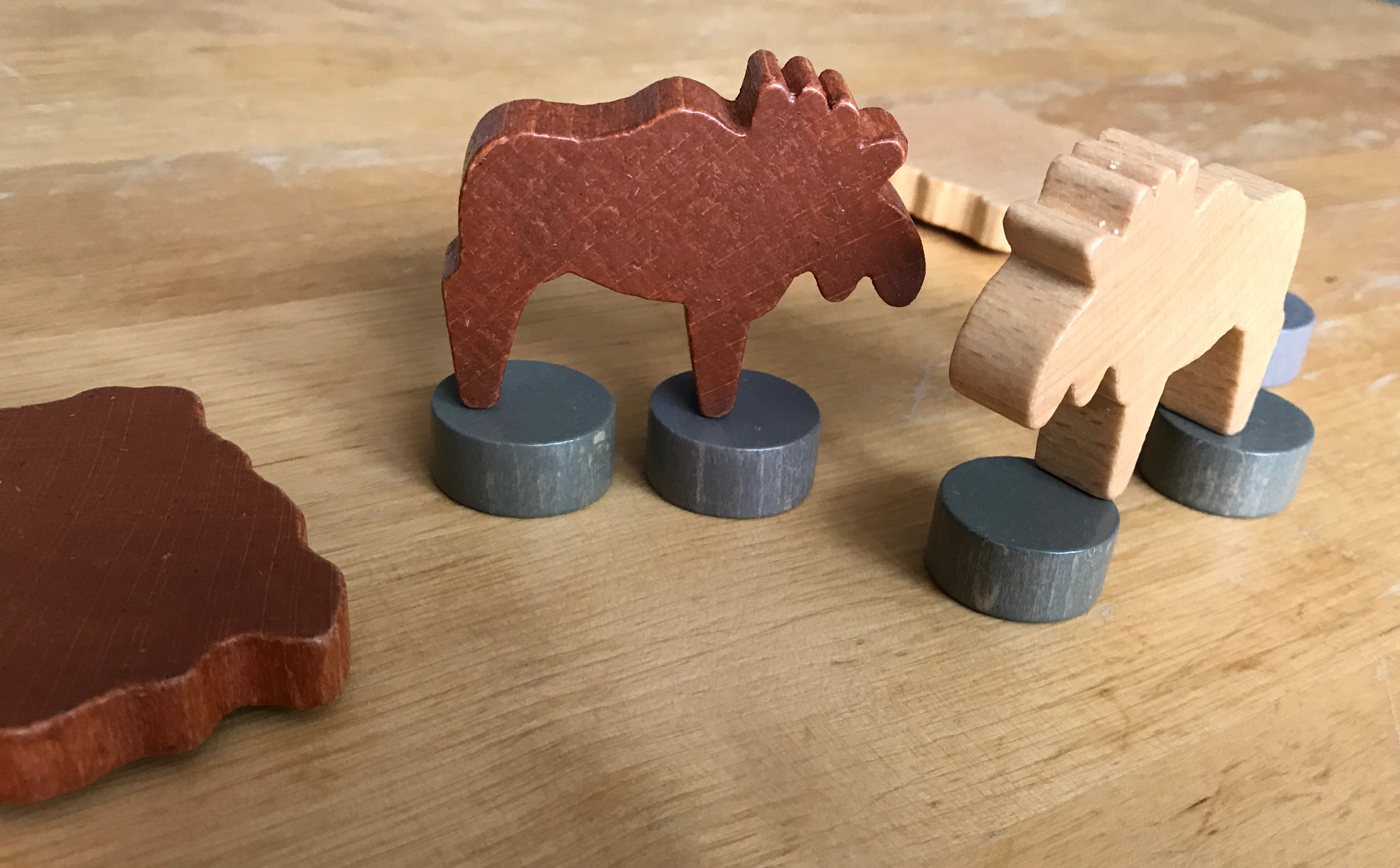 Materials of the 2 player game Elk Fest